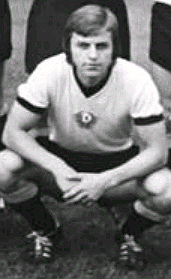 Title: Mannschaftsfoto SG Dynamo Dresden Factual corrections and alternative descriptions are encouraged separately from the original description. Additionally errors can be reported at this page to inform the Bundesarchiv. Original historic description: ADN-ZB-Häßler-1.9.76-str-Dresden: Rainer Sachse 1976